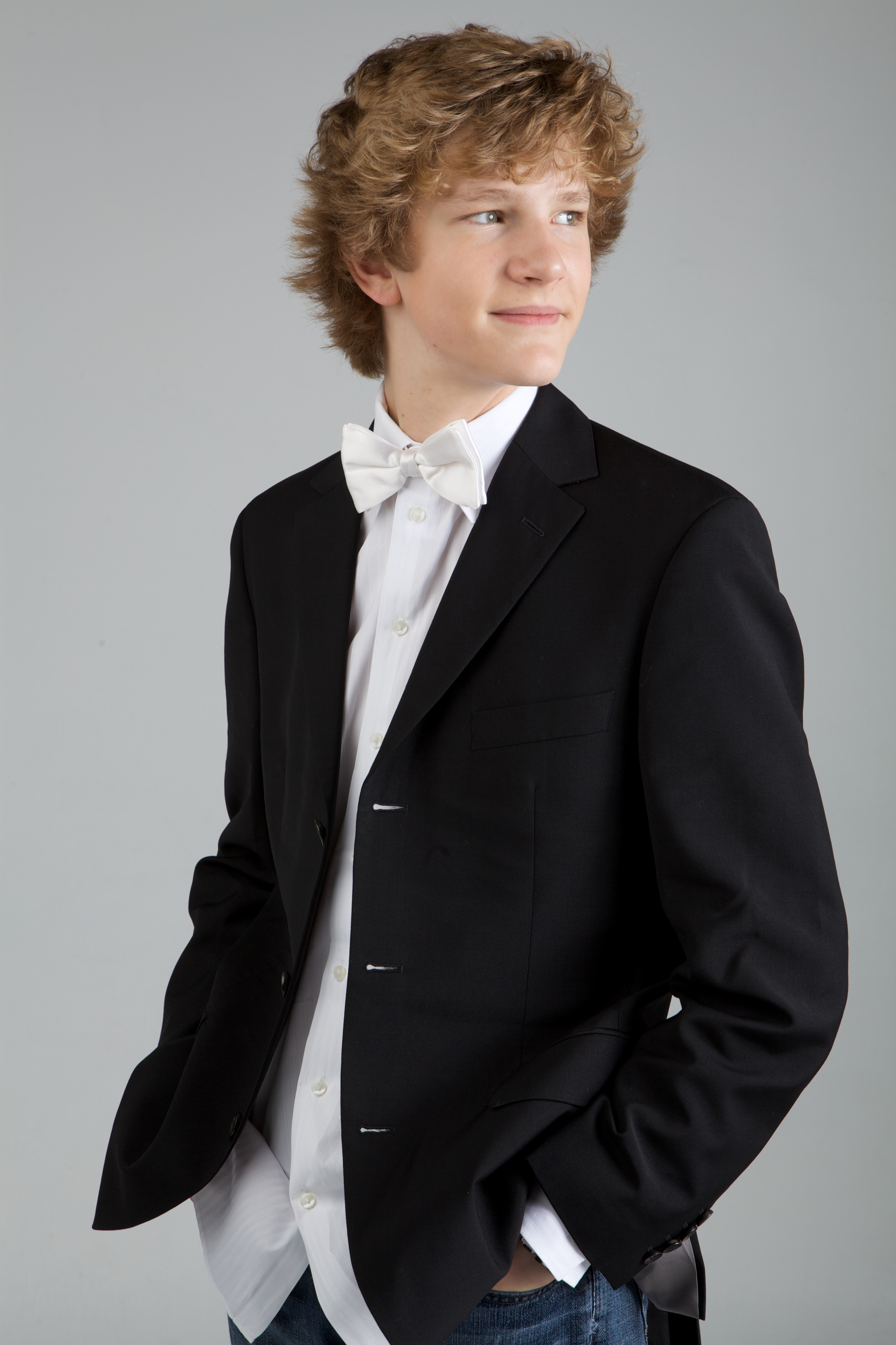 Photo of Jan lisiecki